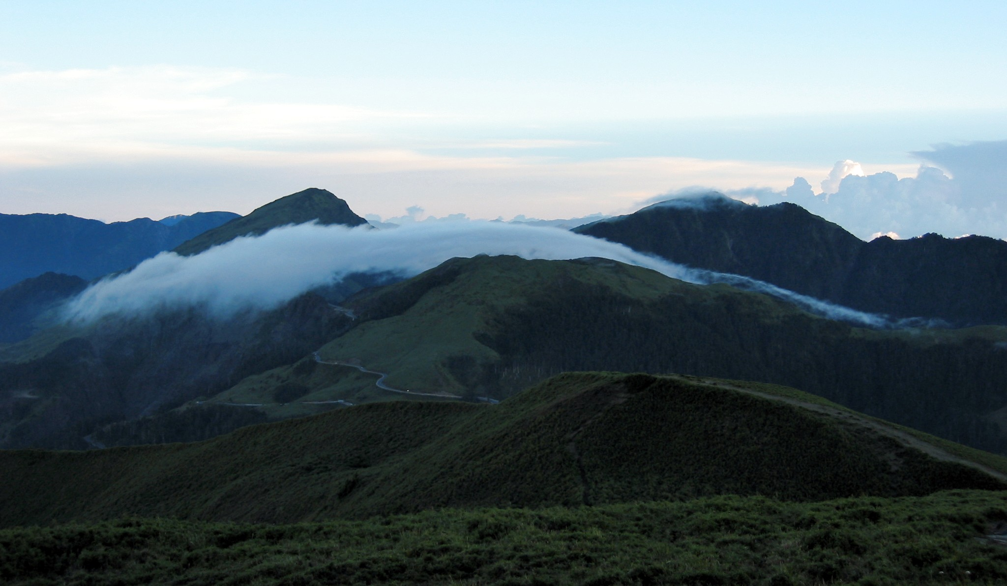 Hehuanshan East and Main Peak at sunset from North Peak; Francisco Carin 范凱令